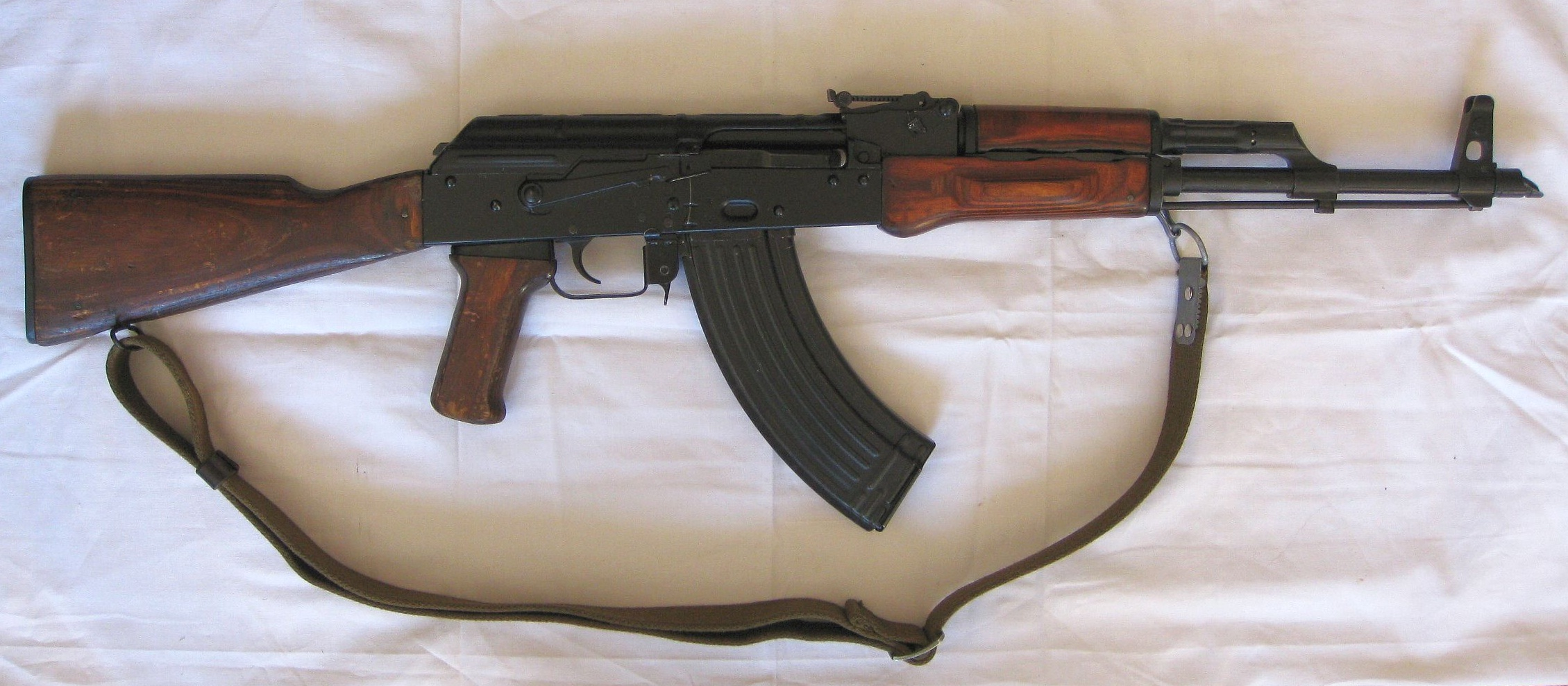 A Soviet AKM assault rifle manufactured in 1960 at the Izhevsk arms plant